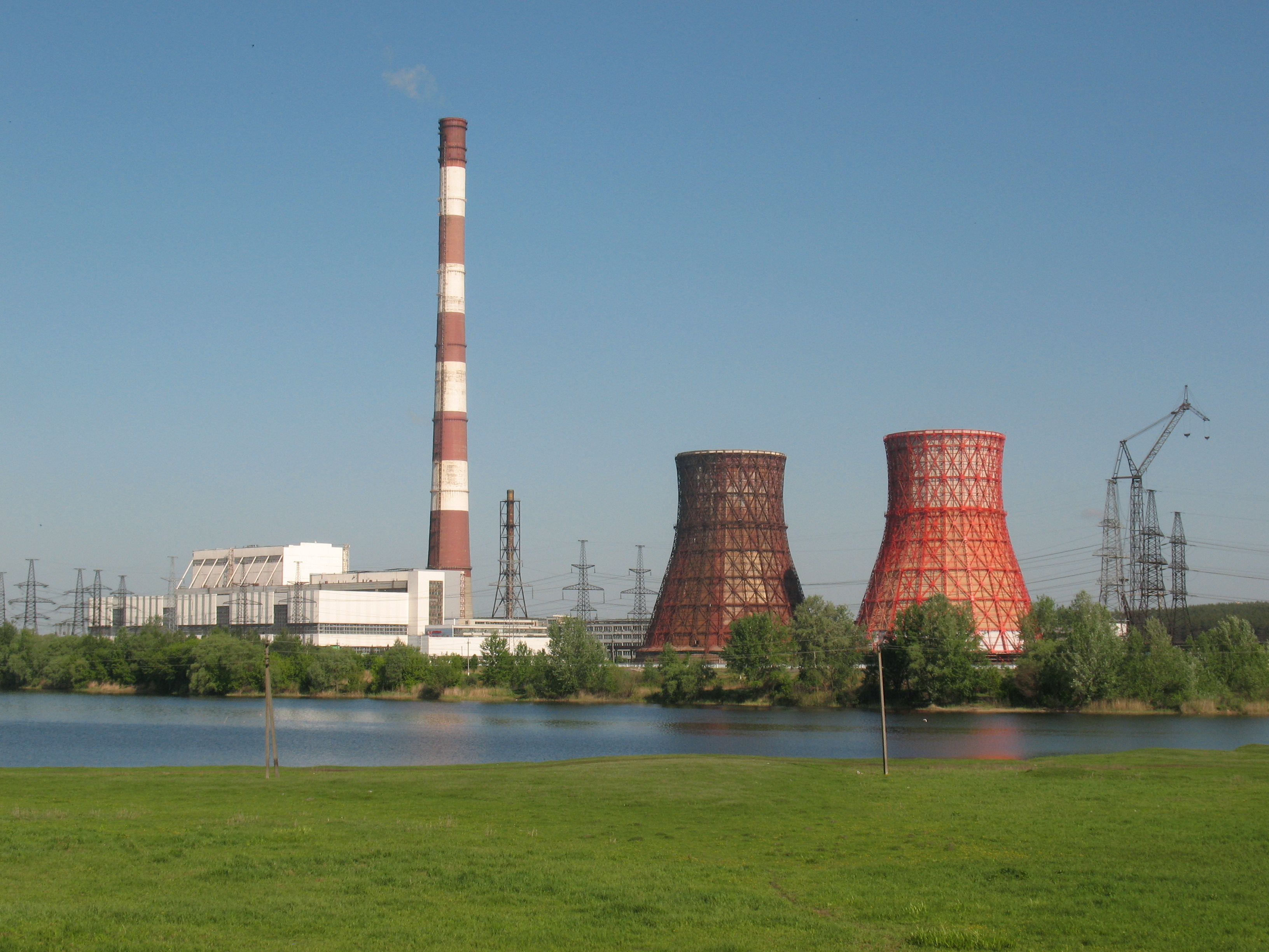 Udy River in Pesochin. Chimney (h=330m) and two hyperboloid cooling towers (h over 81m) on Kharkov Pover Station №5 in Pesochin.